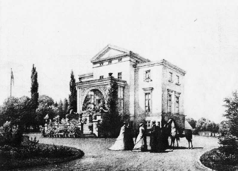 Høvdingsgaard, the main building from 1852, in Vordingborg Municipality, Denmark